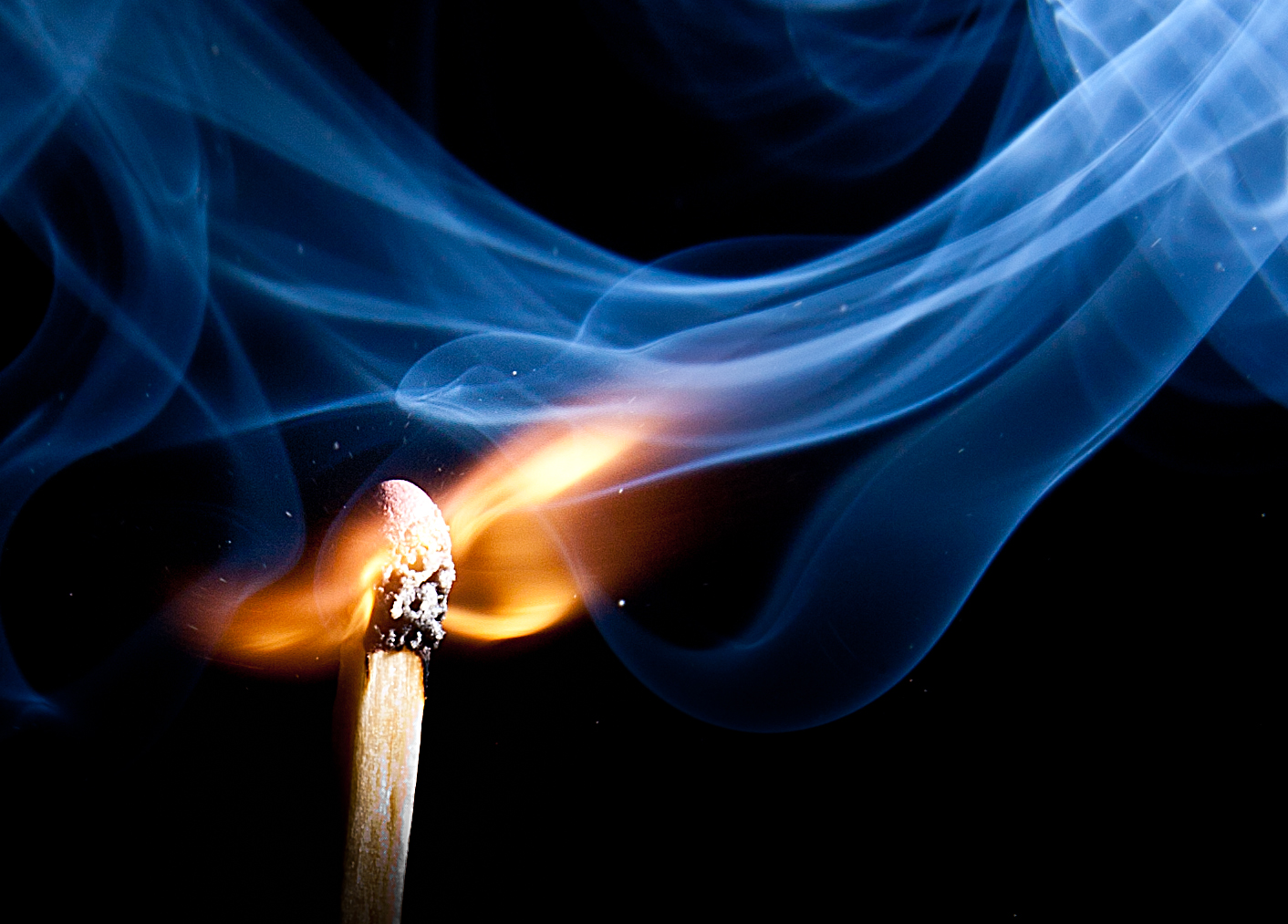 Strobist Info YN-560 a 1/4@24mm con honeycomb a las 3:00 Trigger: RF-602RX